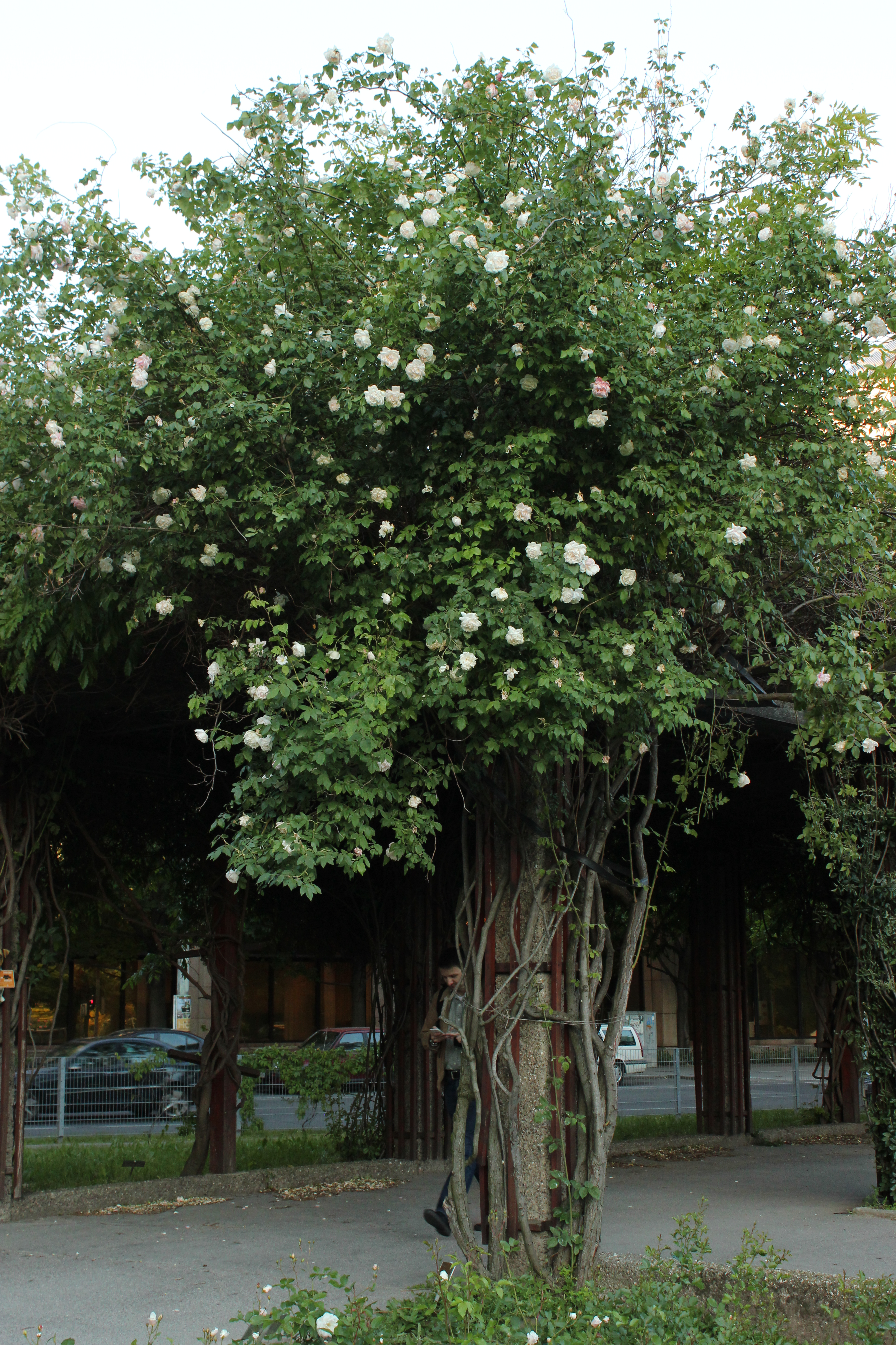 Rosa 'Madame Alfred Carrière' in the Rosarium Wettsteinpark in Vienna. Identified by sign.